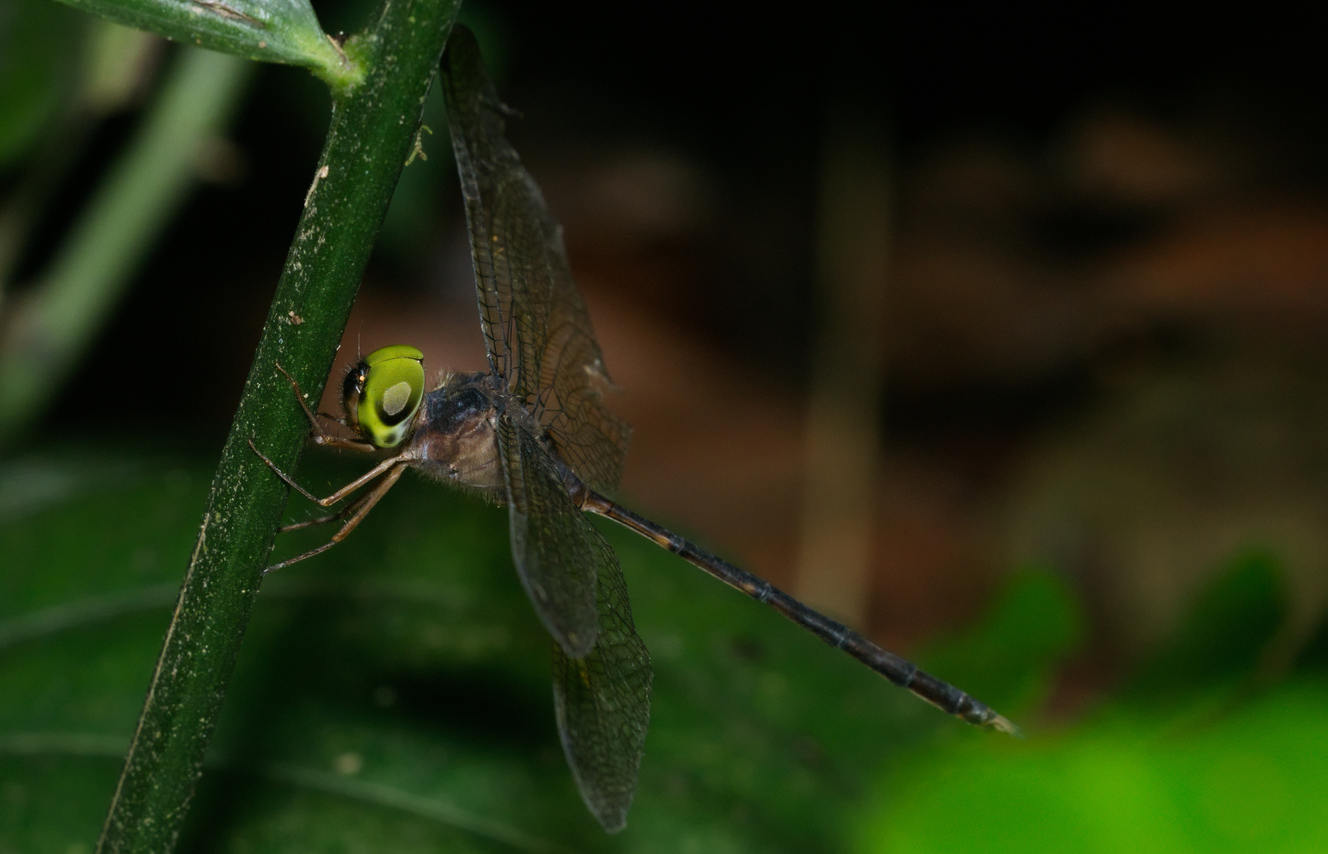 Zyxomma petiolatum, Brown Dusk Hawk, is a large brown crepuscular dragonfly with long thin abdomen and brown tipped wings that fly after sunset. Eyes are brilliant emerald green. Abdomen is dark reddish brown with black rings at the end of each segment; swollen from segments 1-3, then abruptly contracted and slim to the end. It is not easy to spot as it tends to hide away in the bushes close to water and is very well disguised. The male is easy to identify because of the bulbous S1 of the abdomen. The female has an even more bulbous abdomen than the male. The males visit the pond in the evening and fly to and fro very fast till the female arrives. They mate in the air, while making fast movements.